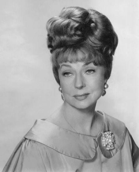 Promotional photograph of actress Agnes Moorehead (1950s)